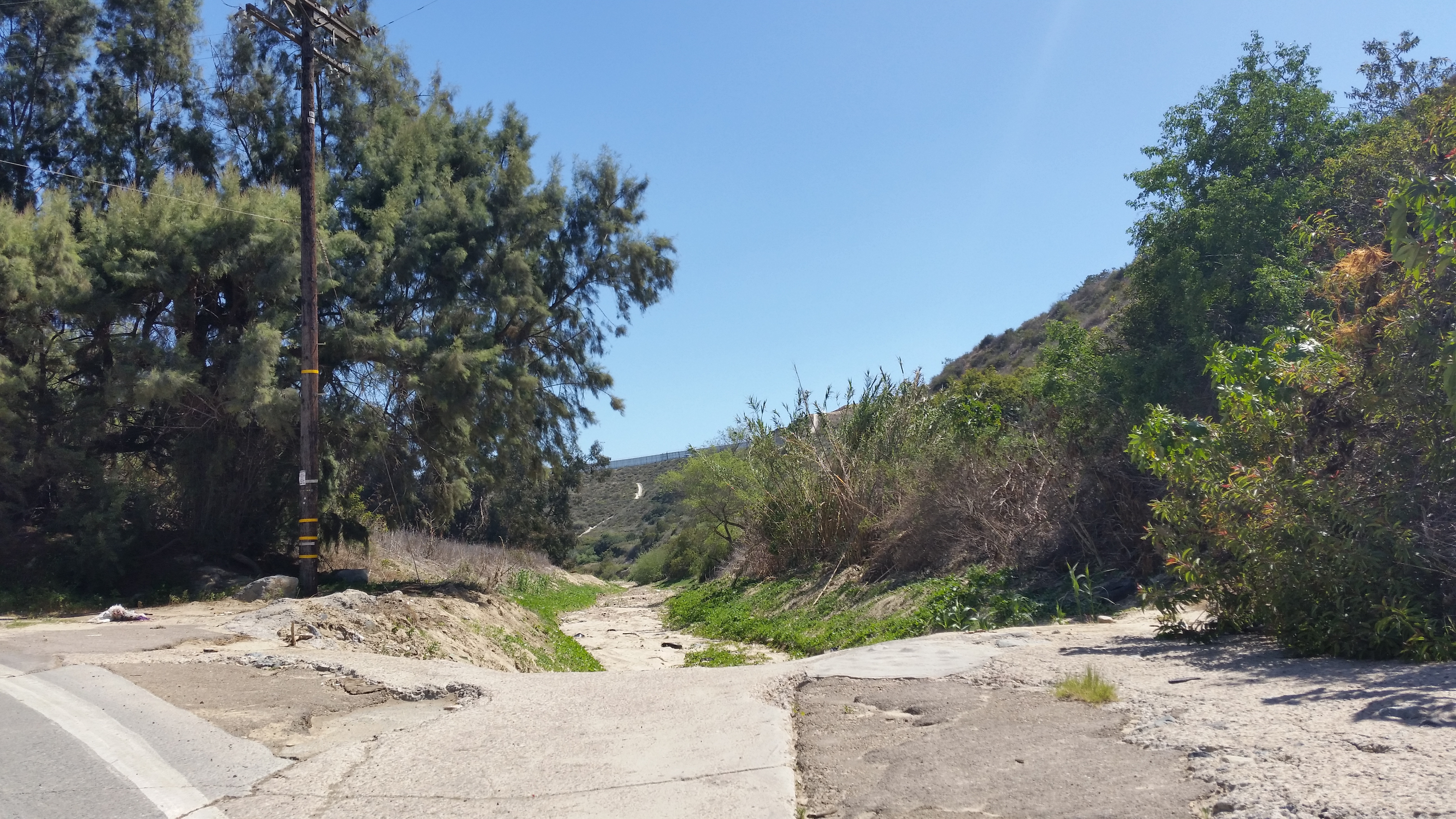 Smuggler's Gulch, in the Tijuana River Valley community of San Diego, as seen from Monument Road looking south